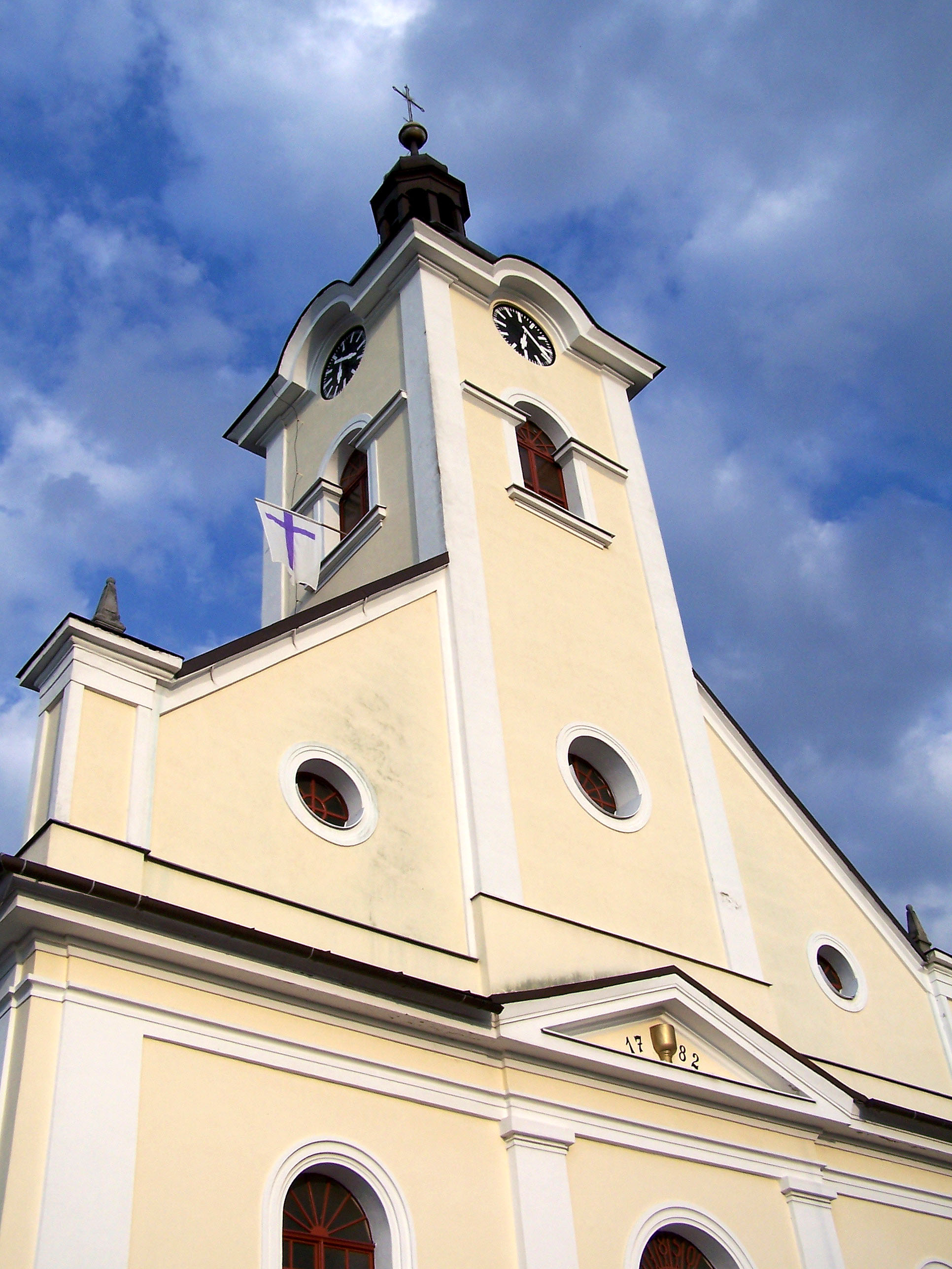 Lutheran church in Dolní Bludovice (Błędowice Dolne), Czech Republic